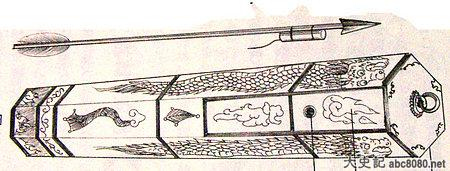 Military of Ming China, a group arrows which are bound with explosive